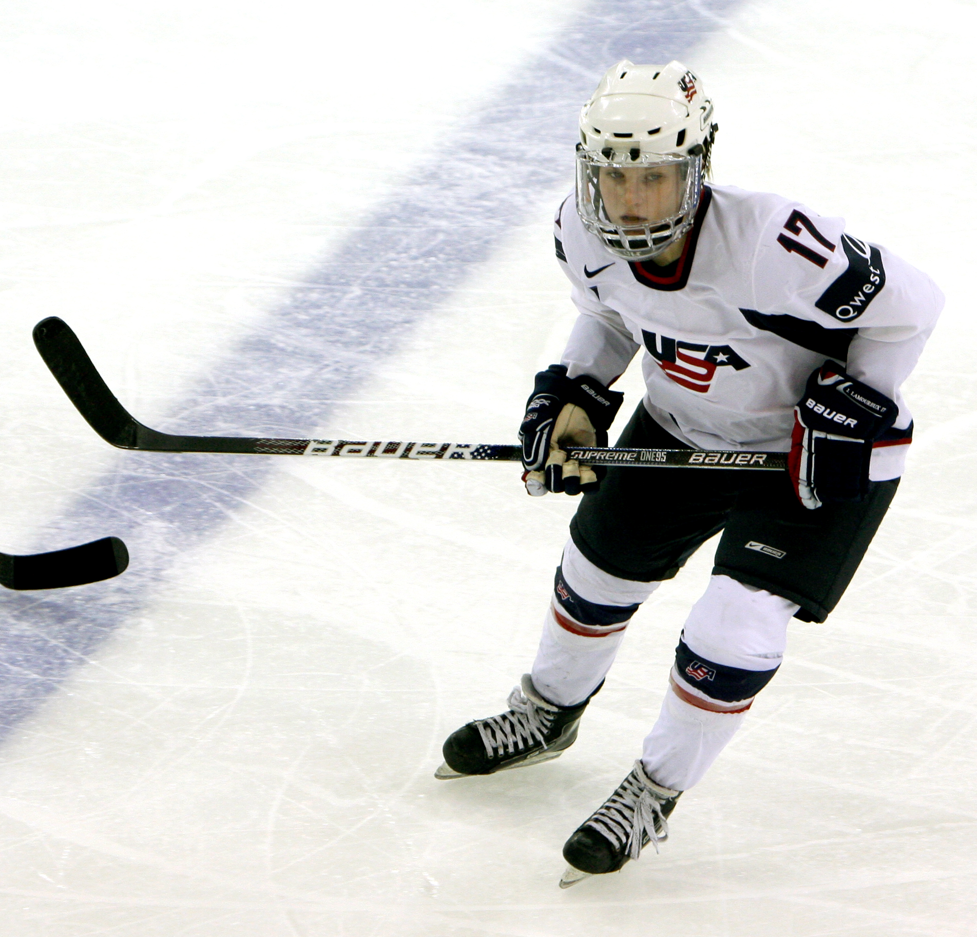 United States forward Jocelyne Lamoureux in a game against the ECAC All-Stars on January 3, 2010.